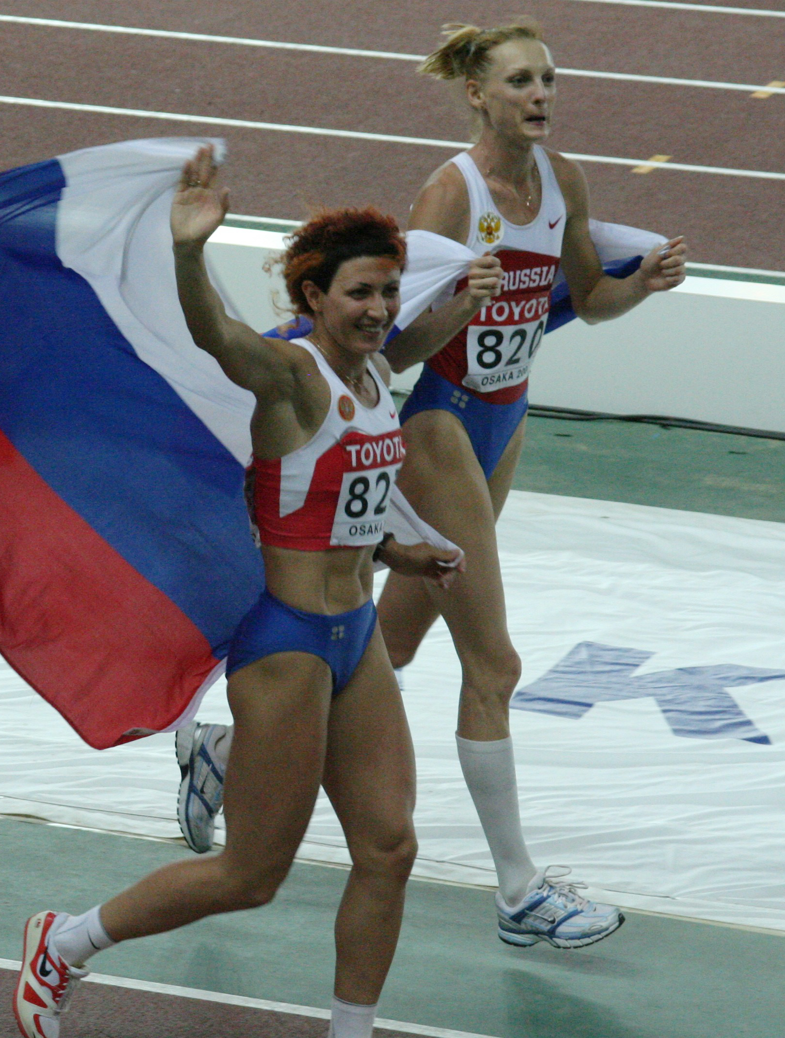 World Athletics Championships 2007 in Osaka - After a triple success for Russia in the women's long jump, Tatyana Lebedeva (foreground), Tatyana Kotova (right) and Ludmila Kolchanova (left) are celebrating